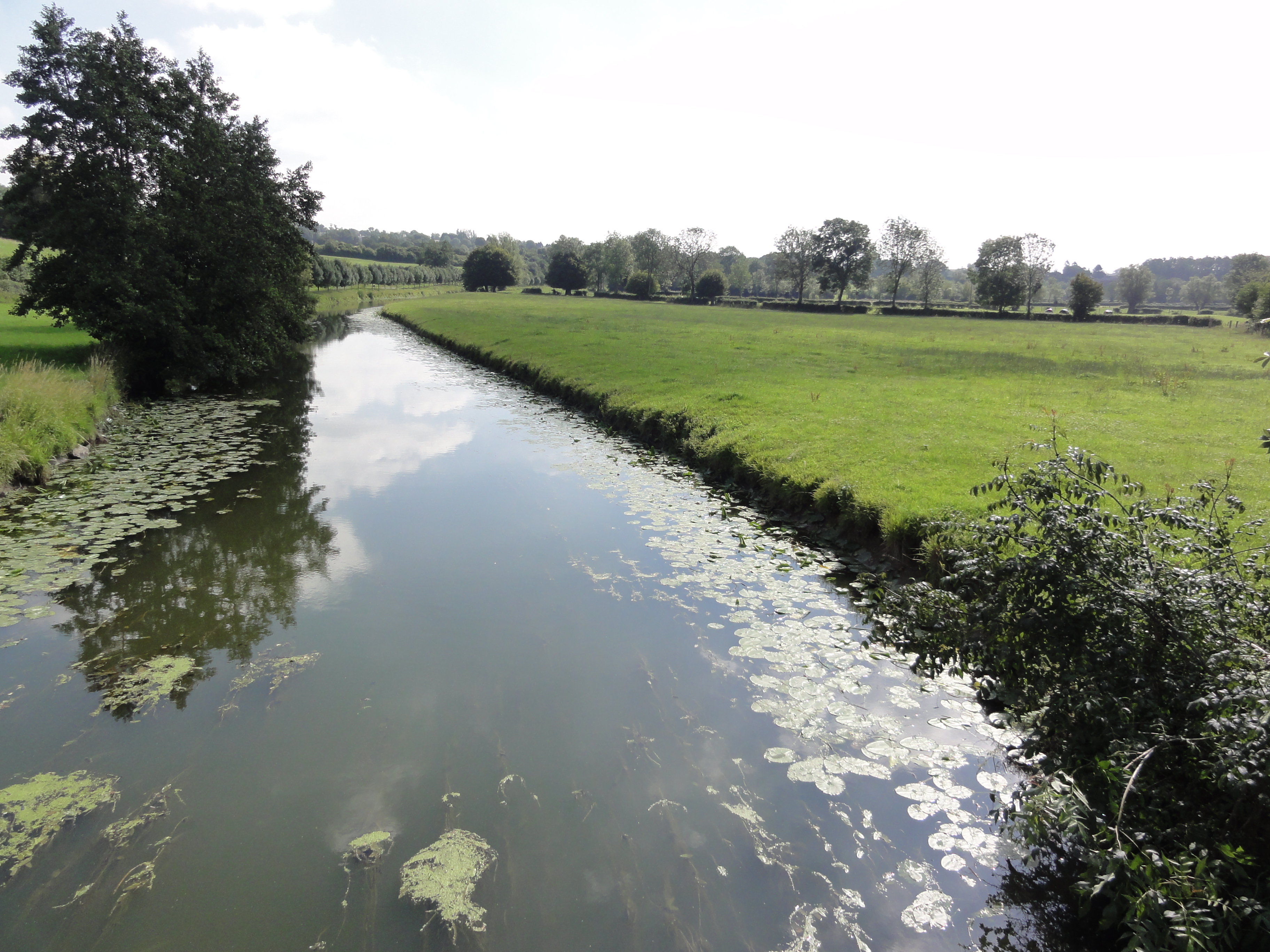 Saint-Hilaire-sur-Helpe (Nord, Fr) Helpe Majeure à Fuchau